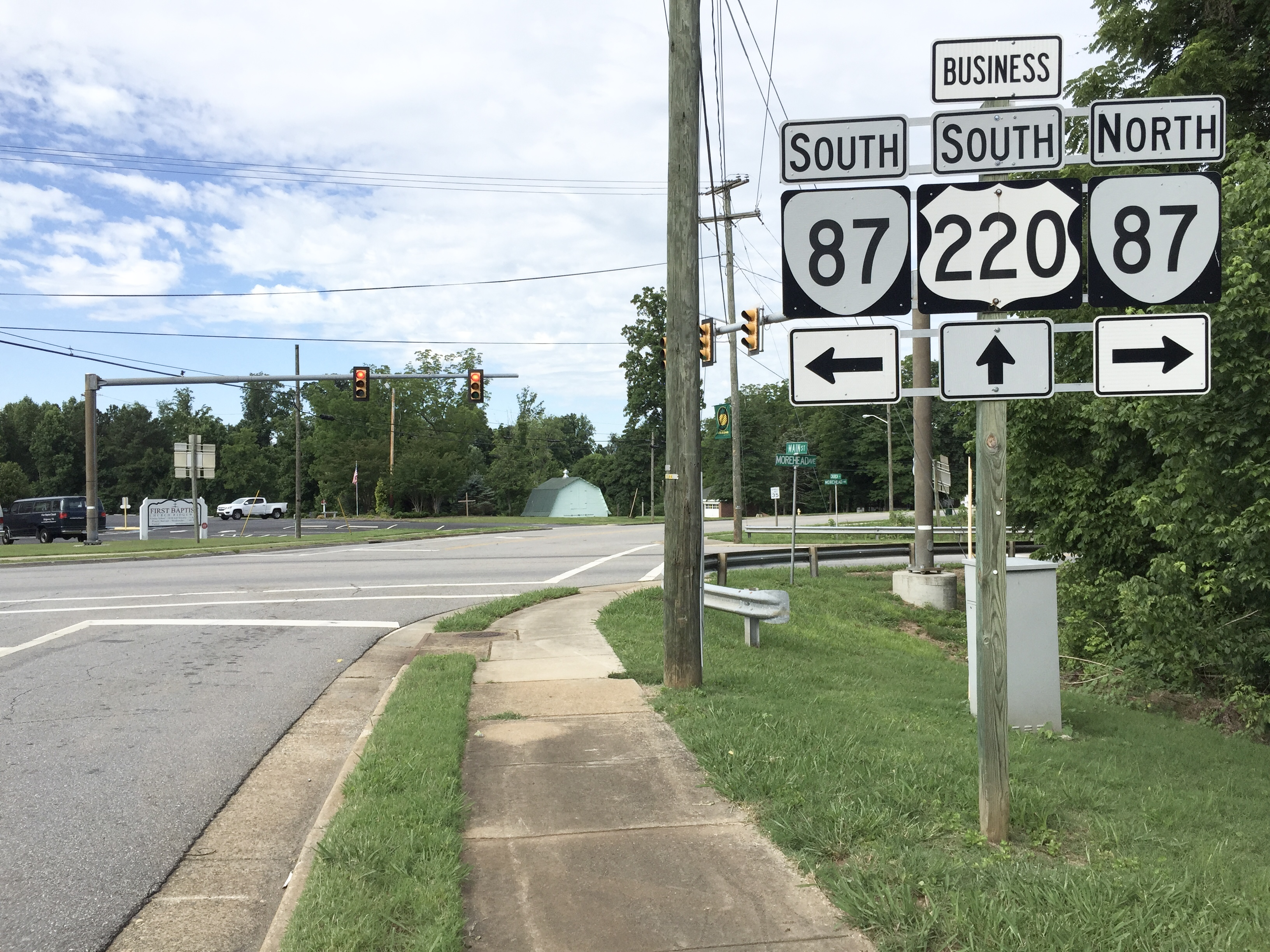 View south along U.S. Route 220 Business (Main Street) at Virginia State Route 87 (Morehead Avenue) in Ridgeway, Henry County, Virginia